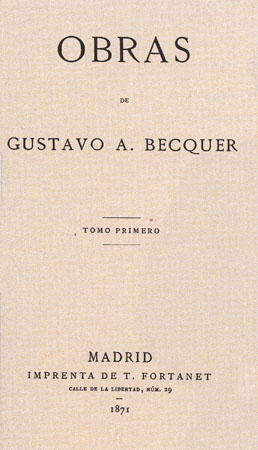 First Edition of Becquer's Work